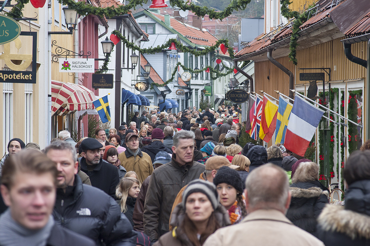 Stora Gatan in Sigtuna, Sweden during Christmas Market days